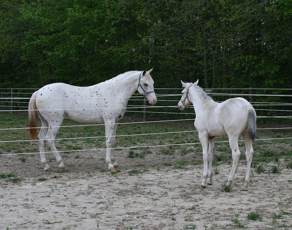 white Appaloosa Filly and leopard Appaloosa stallion